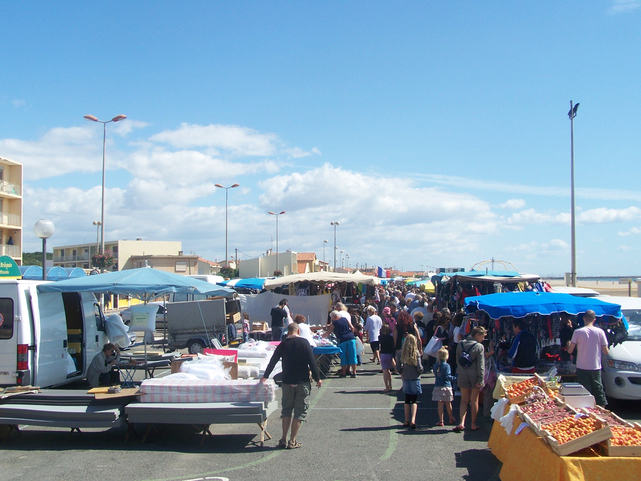 Front de mer in Narbonne-Plage, in Aude, France.